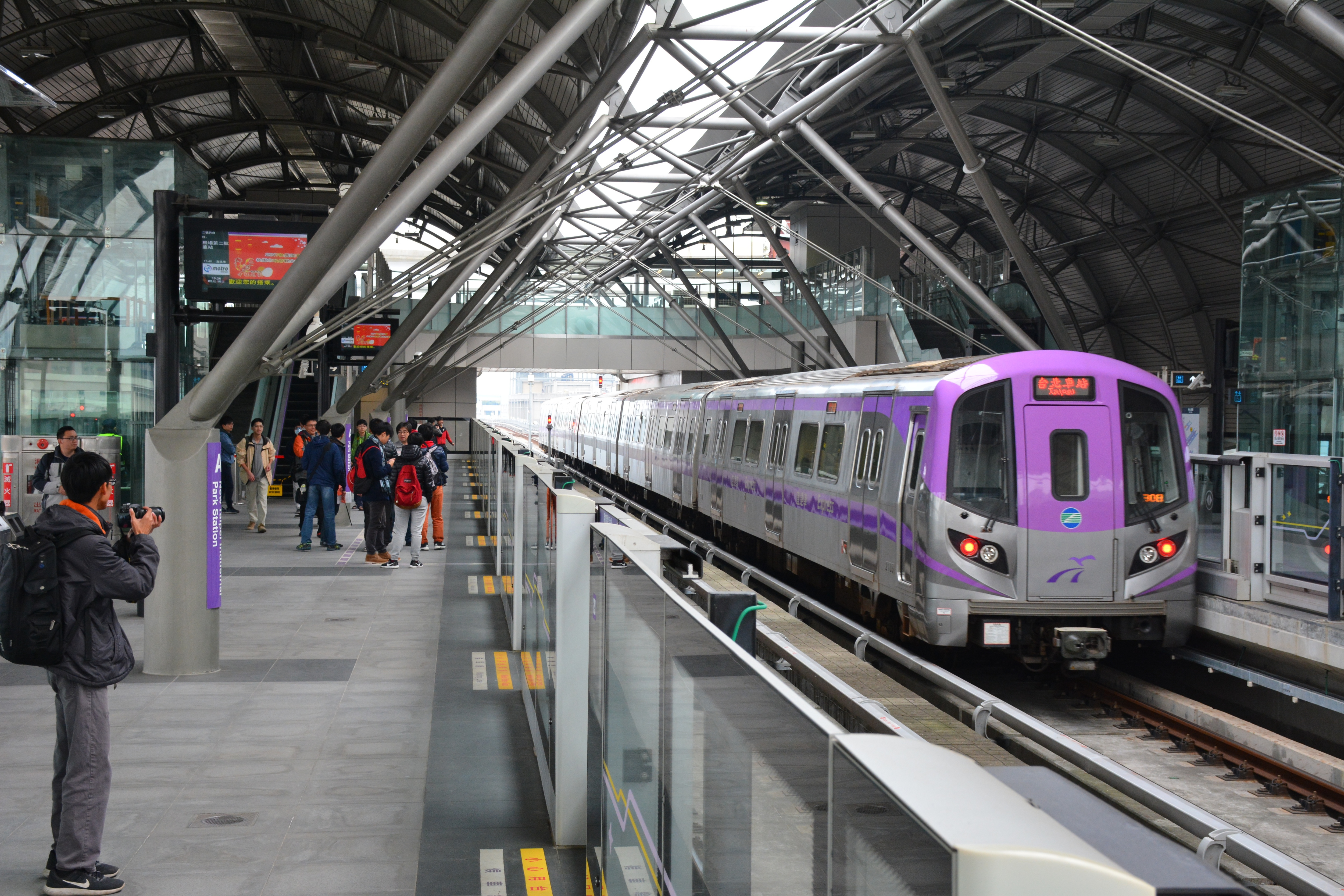 Taoyuan Metro Express Train entering Platform 3, New Taipei Industrial Park Station. View from Platform 2.